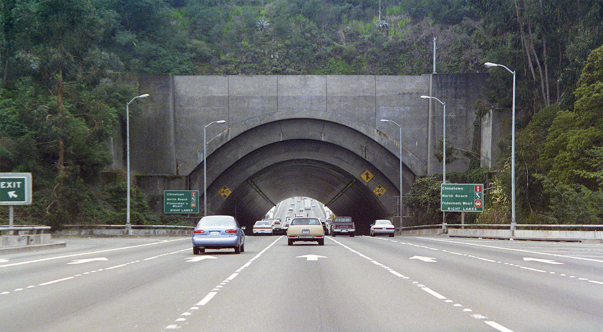 San Francisco-Oakland Bay Bridge; eastern span, tunnel on Treasure/Yerba Buena Island, coming from Oakland driving to San Francisco